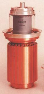 Water-cooled transmitting vacuum tube.